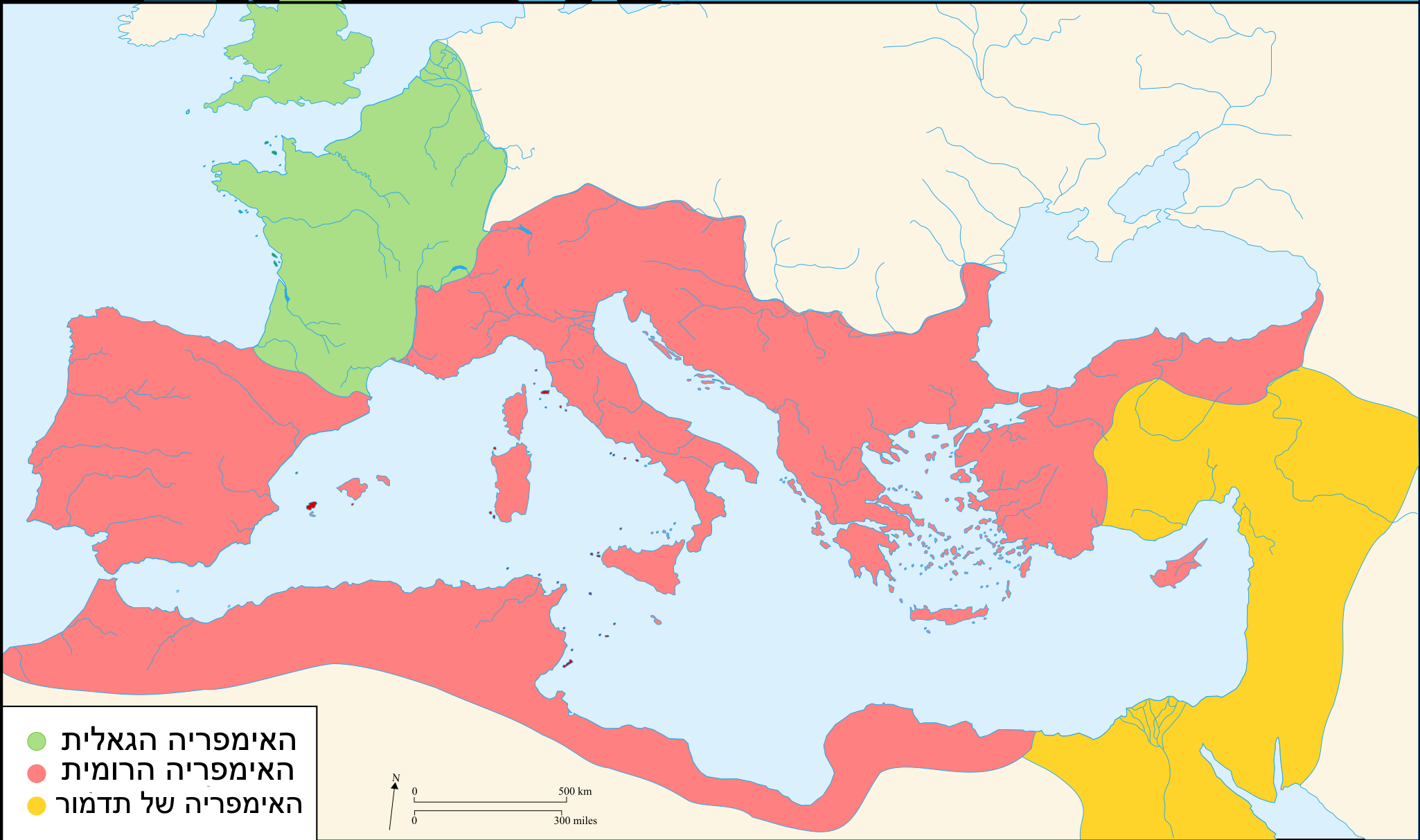 Map of the Roman Empire around the year of the consulship of Aurelianus and Bassus (271 AD), with the break away Gallic Empire in the West and the Palmyrene Empire in the East. מפה של האימפריה הרומית בתחילת העשור השמיני של המאה השלישית